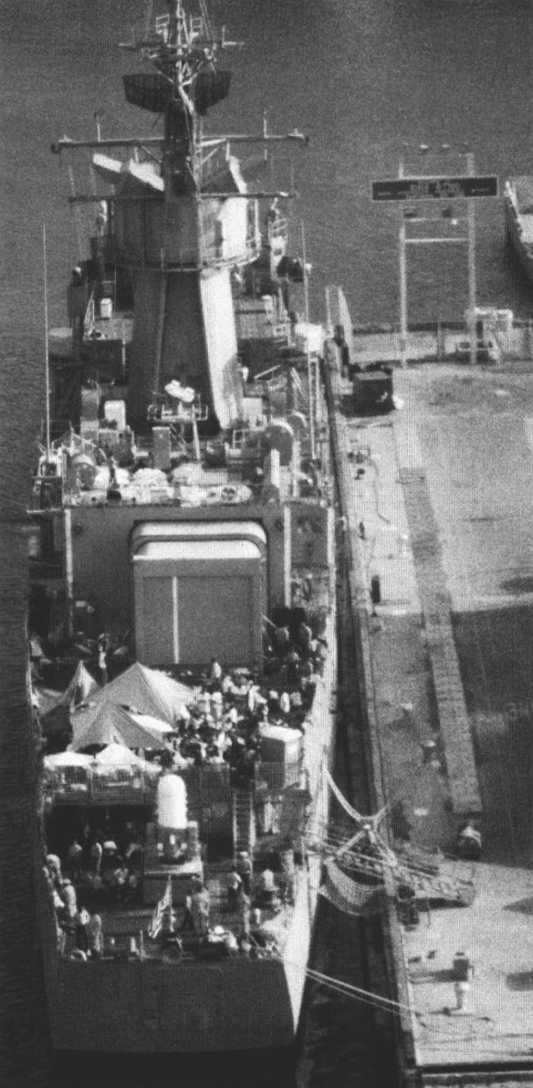 The U.S. Navy frigate USS Moinester (FF-1097) serving as a temporary home for some 200 Haitian refugees at Guantanamo Bay, circa in December 1991. In late November 1991 the frigate was steaming near Guantanamo Bay, Cuba, when lookouts spotted a 12 m sailboat in distress. Aboard were 198 refugees from Haiti that Moinester rescued and brought to Guantanamo Bay.